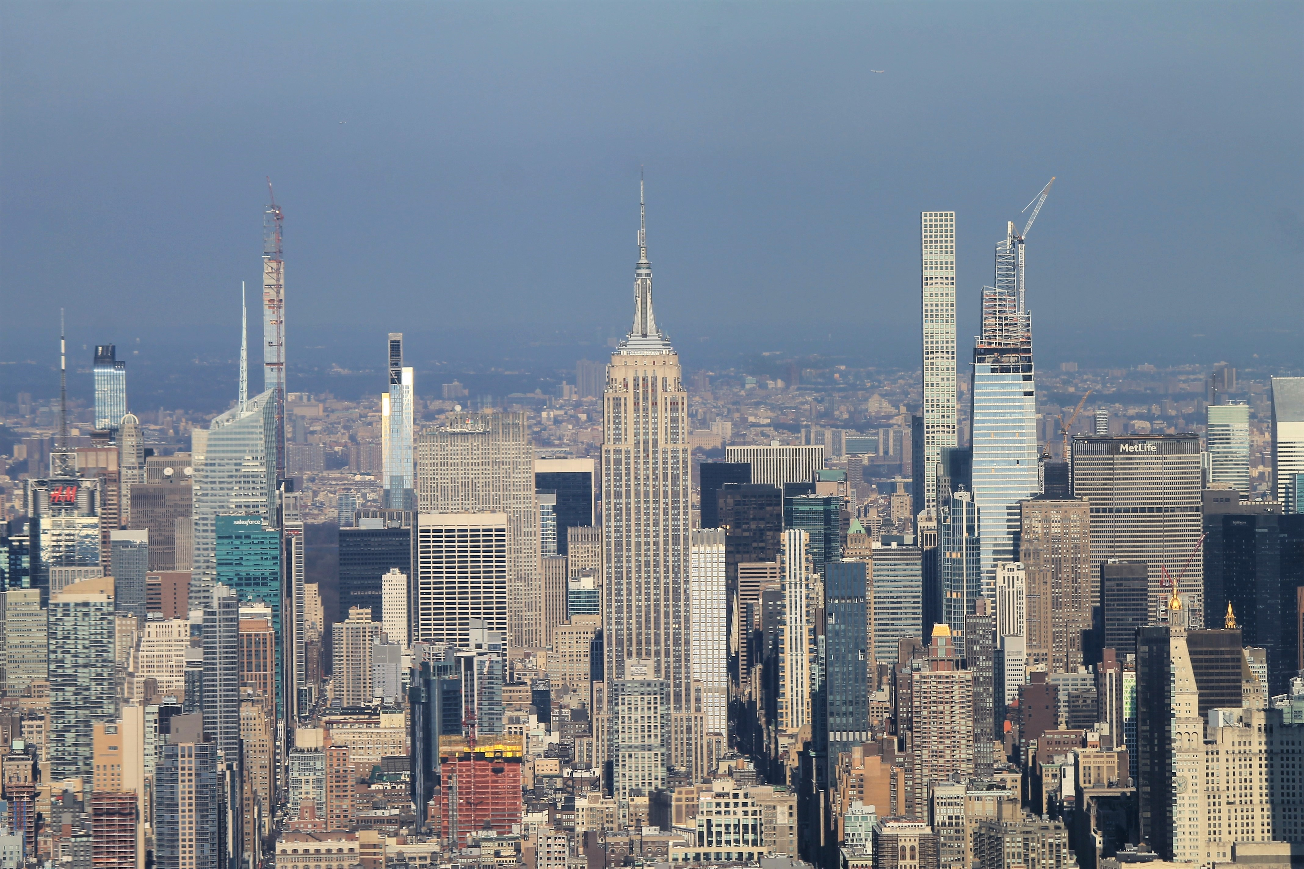 This is a photo of the Empire State Building seen from the observation deck of the One World Trade Center Skypod.